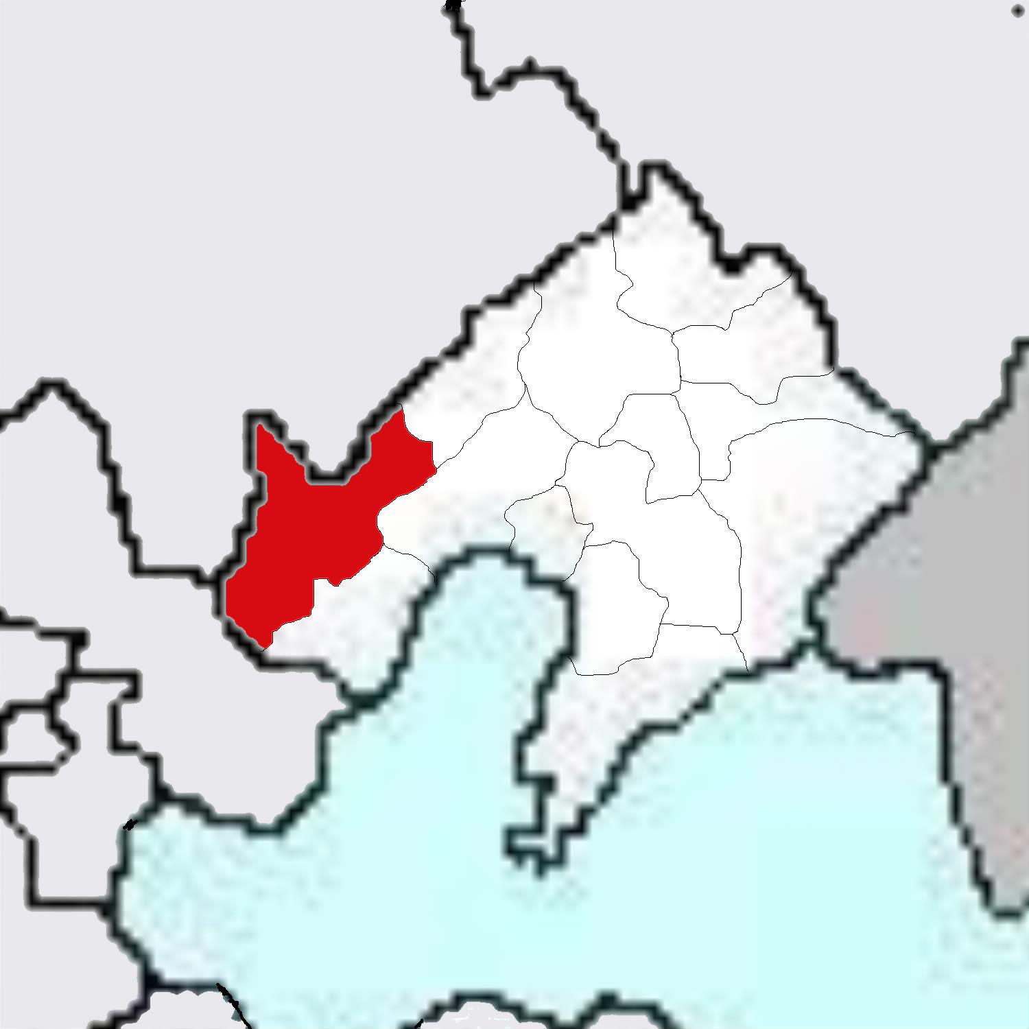 Map of Chaoyang Prefecture — Liaoning Province, northeastern China.